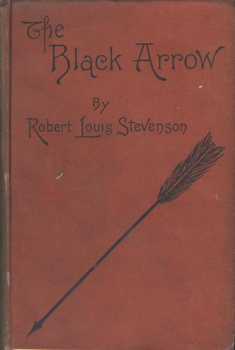 Cover of the First Edition published in 1888